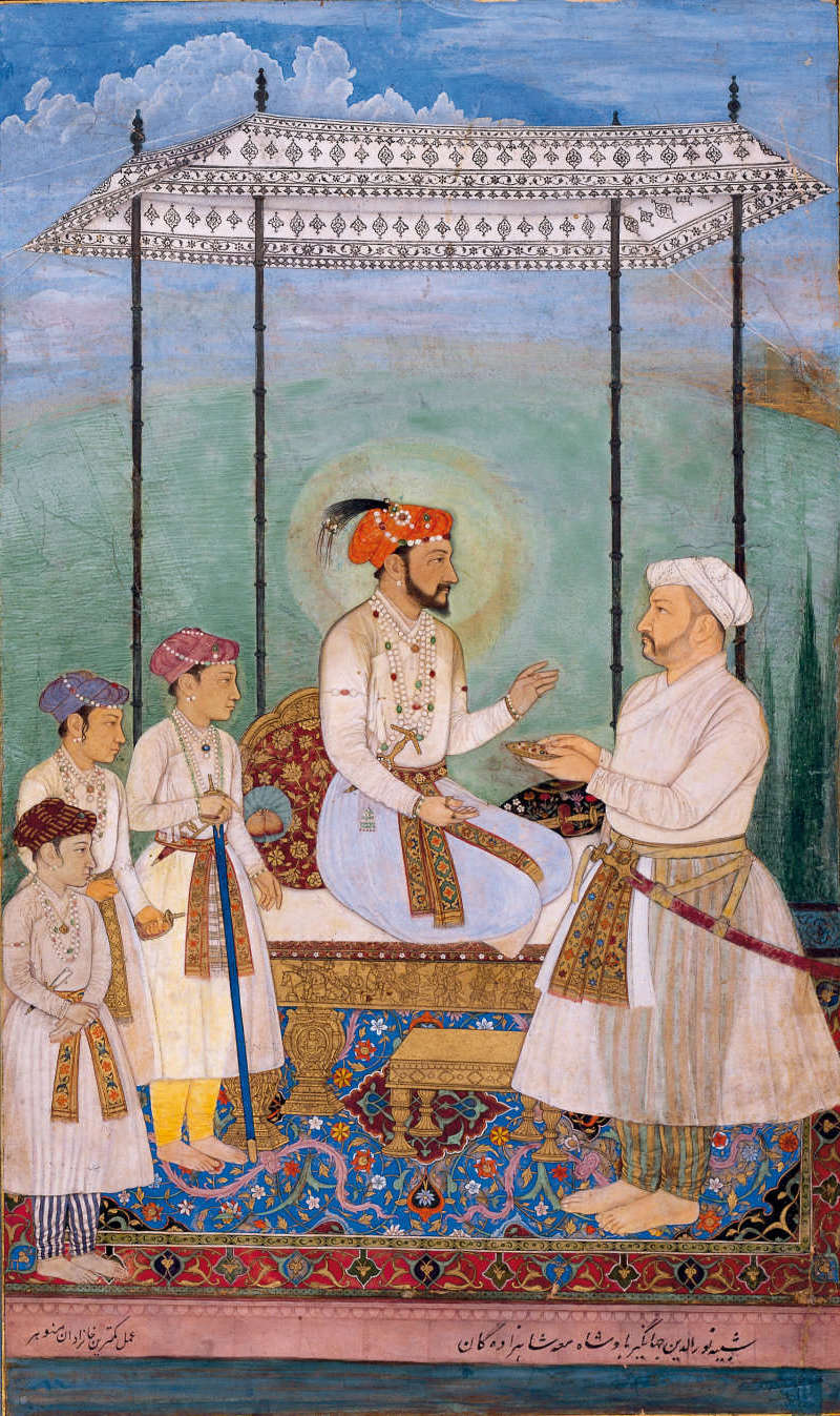 The emperor sits in haloed profile upon a gold-footed throne under a high white canopy, flanked by his three young princes who stand on the left. All are resplendent with opulently bejewelled turbans, necklaces, qatar daggers, and sashes (patkas) against a rounded backdrop of turquoise, perhaps suggesting a globe, as golden light appears on the right. The inscription on this Mughal painting identifies it as a portrait of emperor Jahangir and his three sons, but what we see today are the faces of Shah Jahan (r. 1628-57 CE) and his three eldest sons - Dara Shikoh (1615-59 CE), Shah Shuja' (1616-59 CE) and Awrangzeb (1618-1707 CE) - and their maternal grandfather, Asaf Khan, on the right. It was not unusual for the Mughals to refurbish earlier works for propaganda reasons. The inscription at bottom left reads, “work of the most humble of the house born, Manohar.” Sheila Canby notes that the painting is characteristic of Manohar’s style from about 1615 CE except for the refurbished faces, and that the composition follows the conventions of intimate royal portraits from Akbar’s reign, which, under Jahangir and Shah Jahan in the 1610s–1620s, developed to include a more psychological focus.